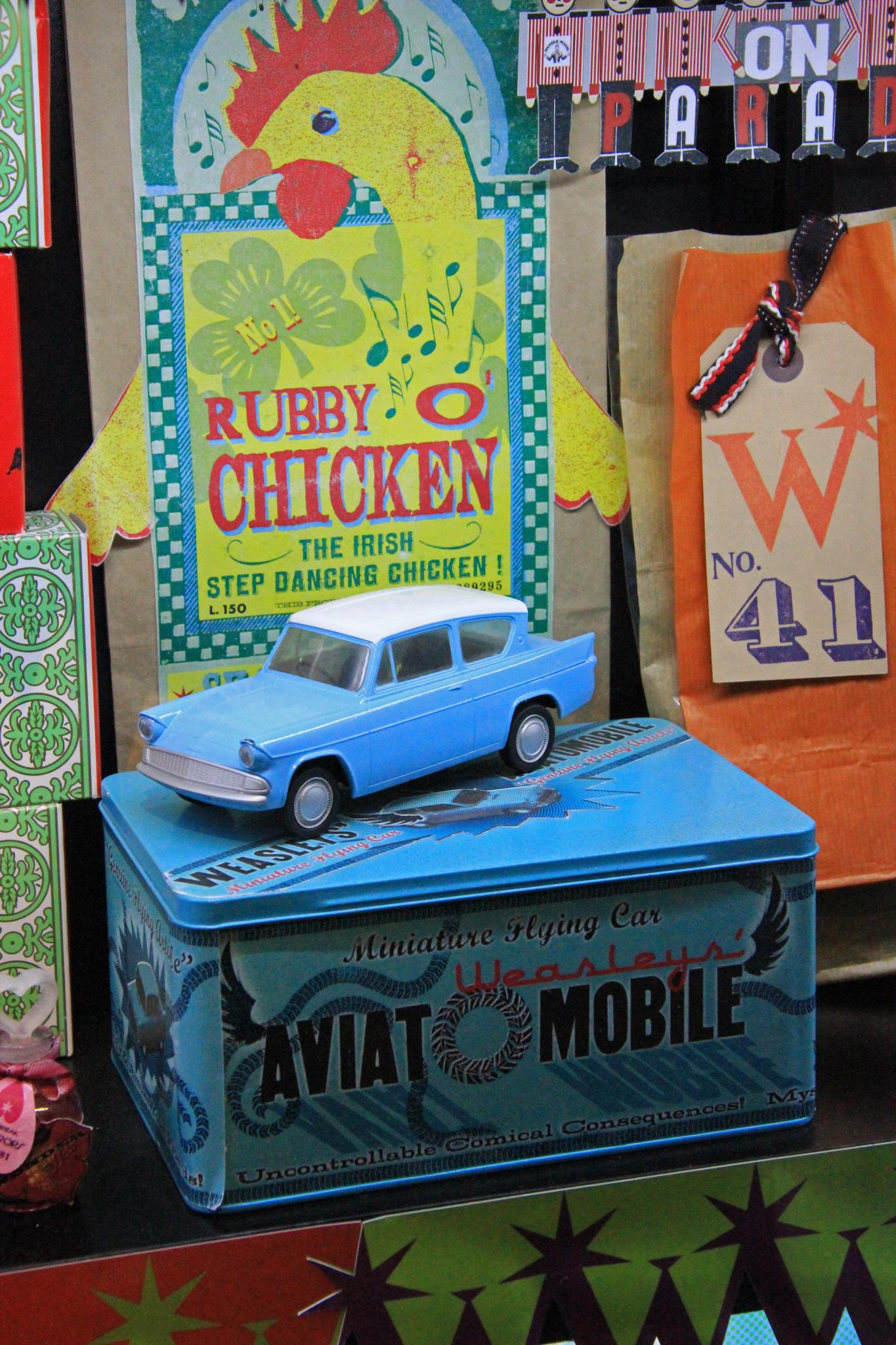 Warner Bros. Studio Tour London: The Making of Harry Potter.